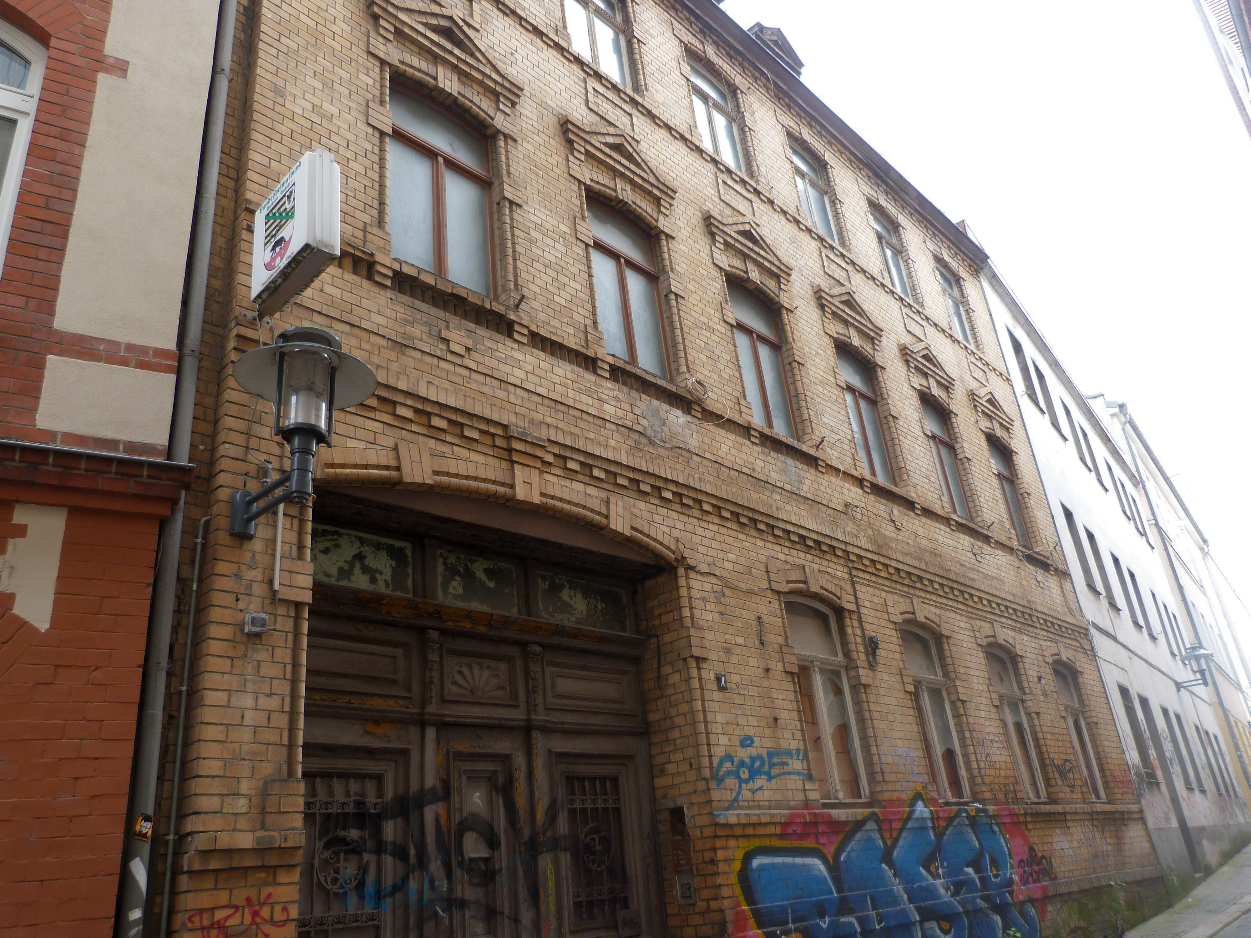 House No. 14 Martinstrasse in Halle (Saale)